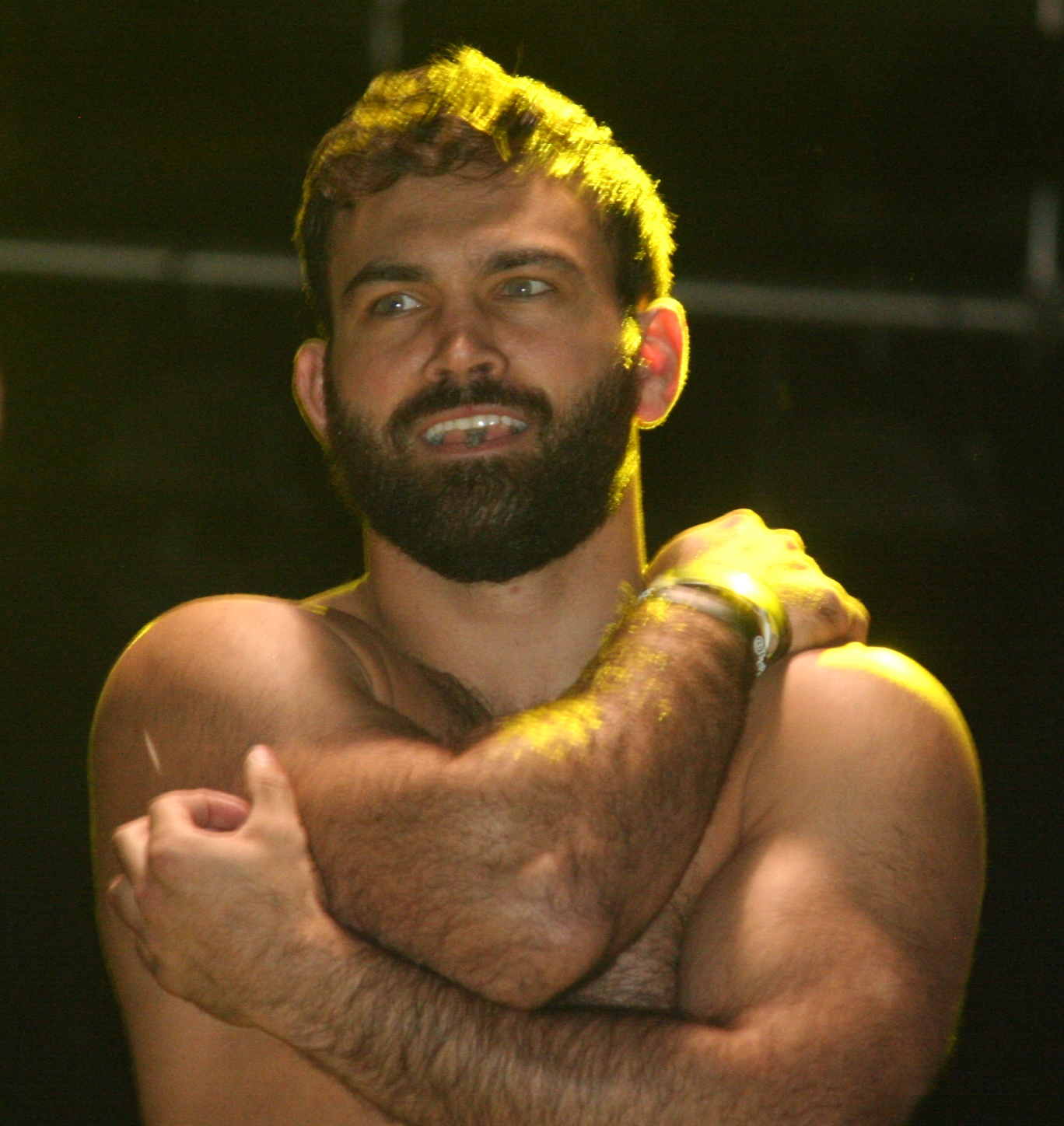 Professional wrestler David Starr in June 2015.